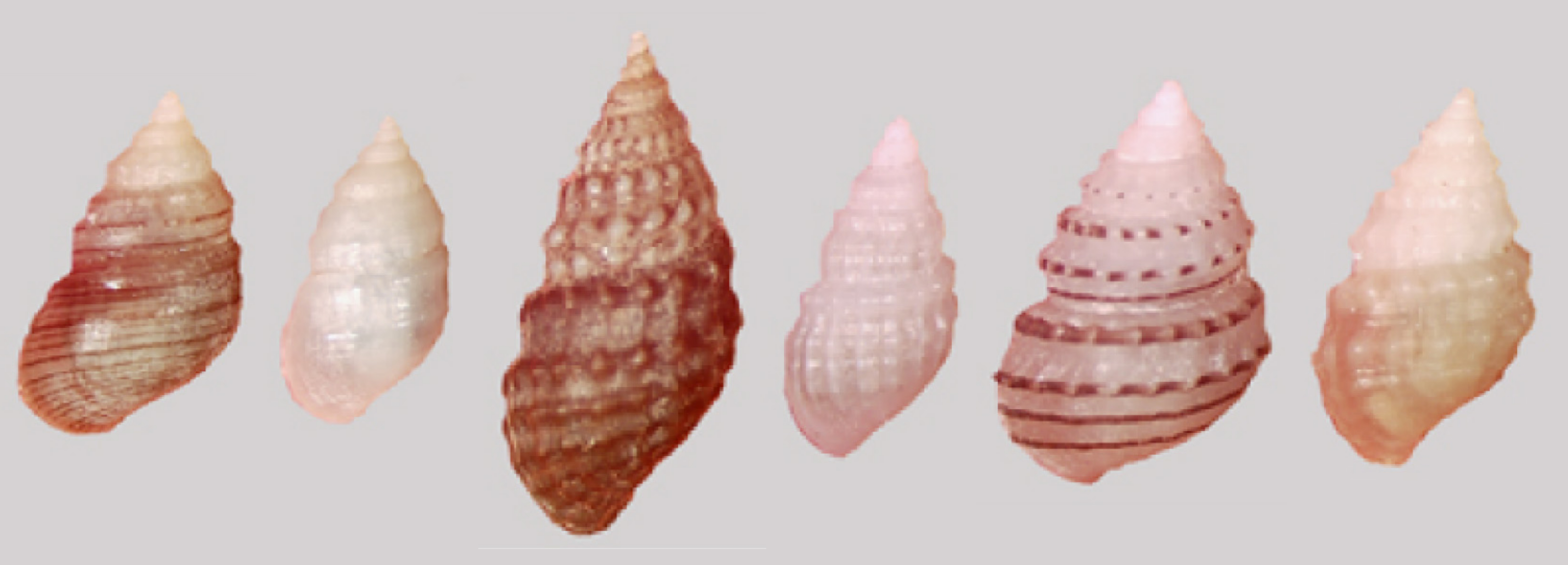 photo of shells of Mexipyrgus churinceanus